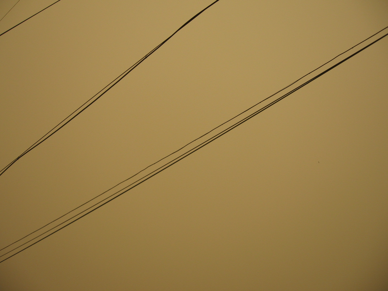 Haze. Real sky color in 9.04 AM 7 august 2010